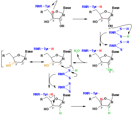 The reaction mechanism of ribonucleotide reductase